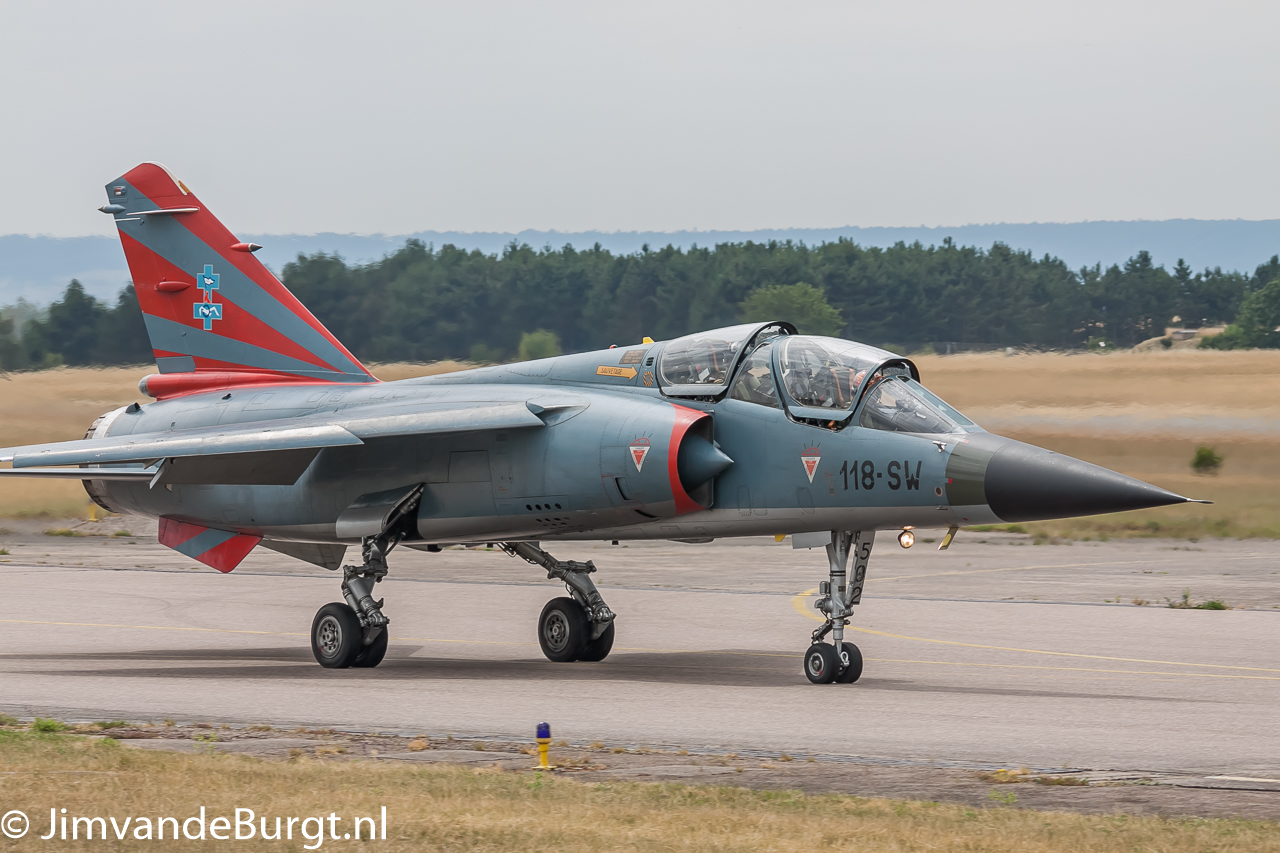 2014 Meeting de l'airir Base aerienne 133 Nancy-Ochey, France